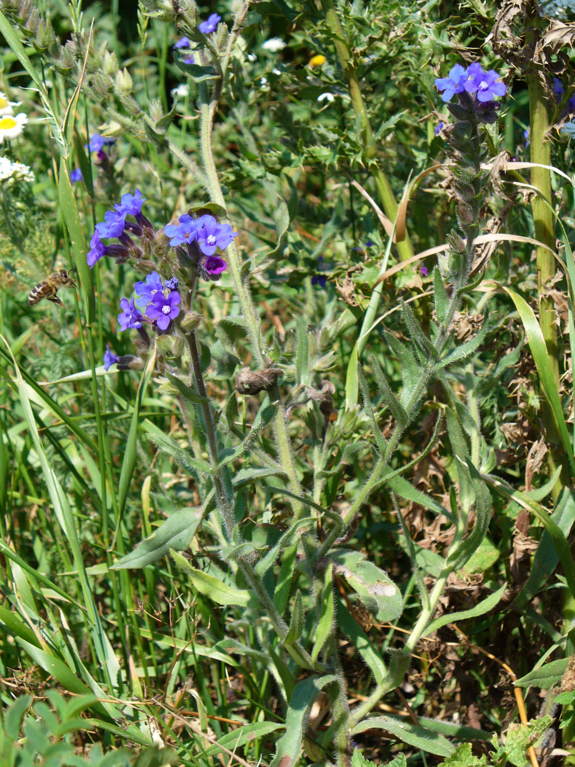 please help to categorize- respect the stress